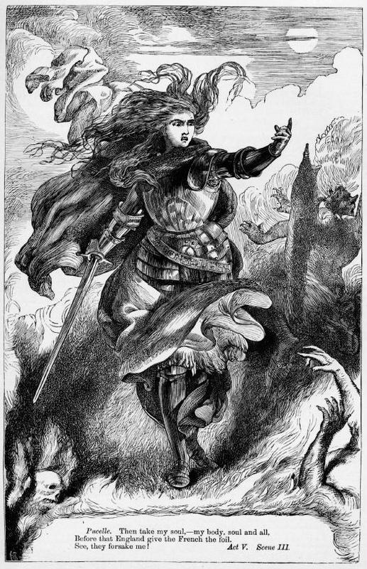 Joan engages in battle in Henry VI, Part 1